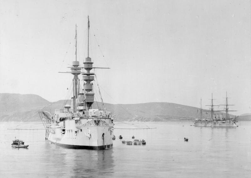 Armoured cruiser SMS Deutschland (1874), former central battery ironclad, of Kaiser class. On the right ptobably Russian cruiser Pamyat Azova